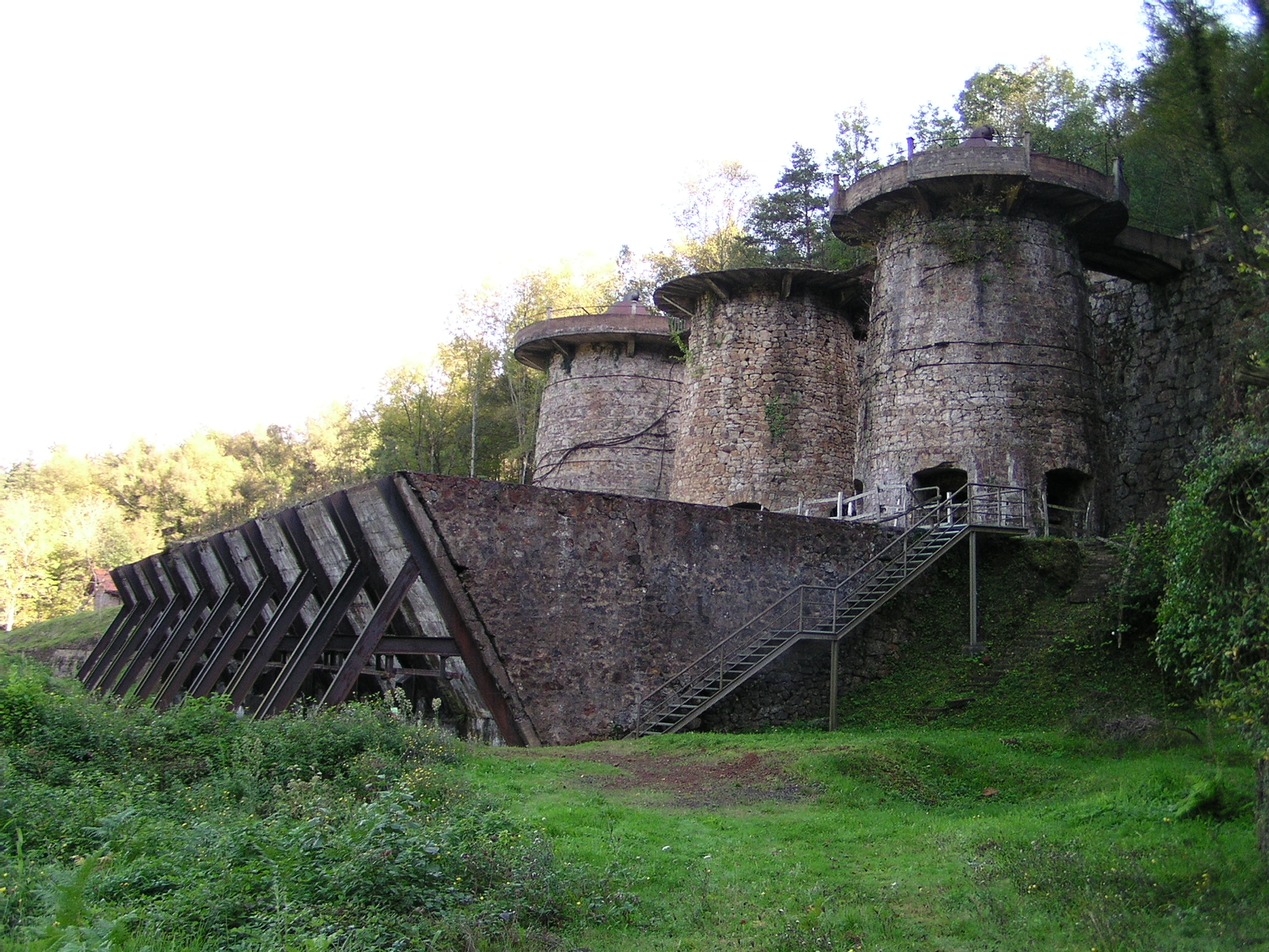 Euskal herrian, burniaren hustiaketa prozesu osoa zuzenean eta leku berean ikusteko aukera ematen duen paraje ederreko lekua. Aizkorriko parke naturalaren atarian.